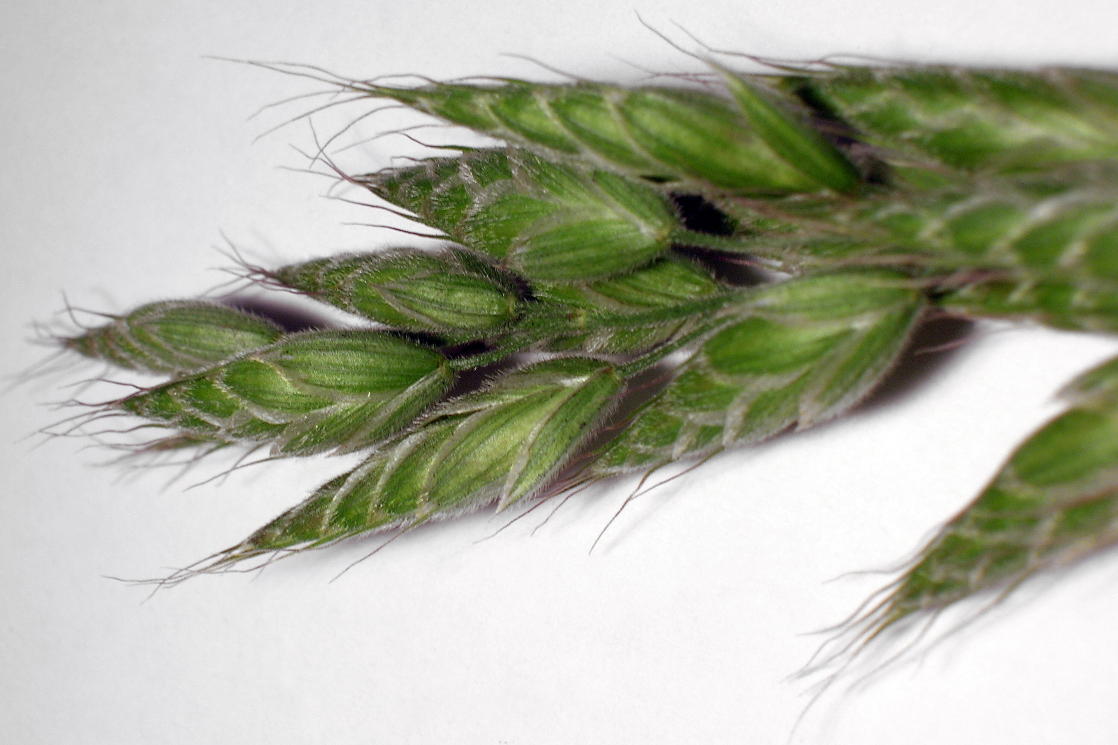 Spikelets of a Bromus commutatus panicle. The Meadow Brome. Spier's, Beith, Ayrshire, Scotland.